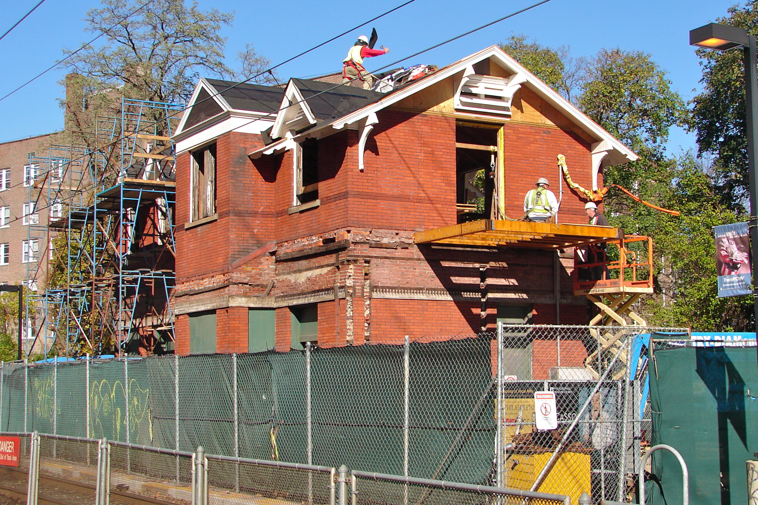 Tulpehocken Station on the SEPTA regional Rail Lines near Germantown in Philadelphia. Coords 40.035271,-75.187018. In the Tulpehocken Historic District on the NRHP. Construction still going on to restore it!